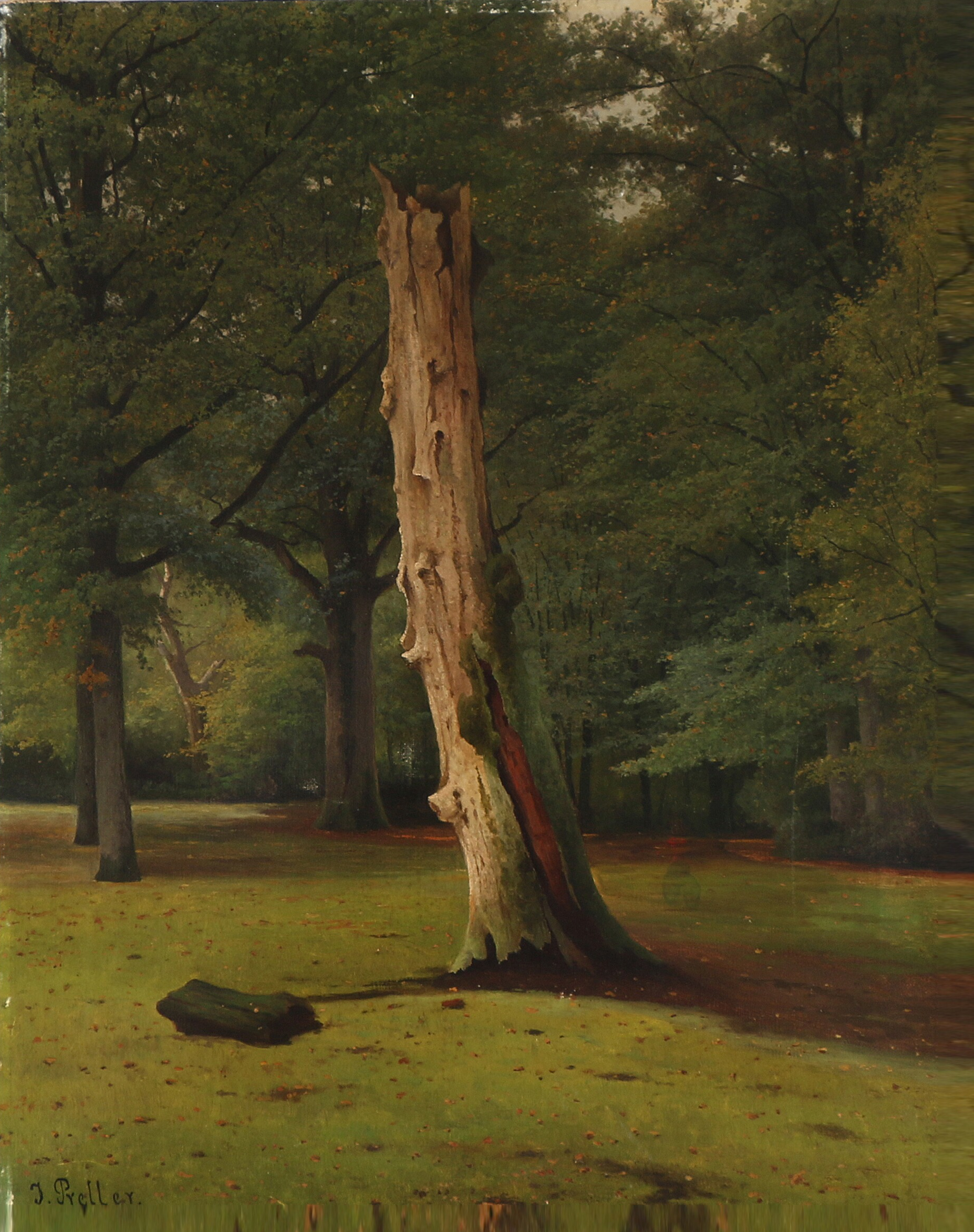 Preller in 1892 argued for the preservation of dead tree trunks, in order to keep the original forests.